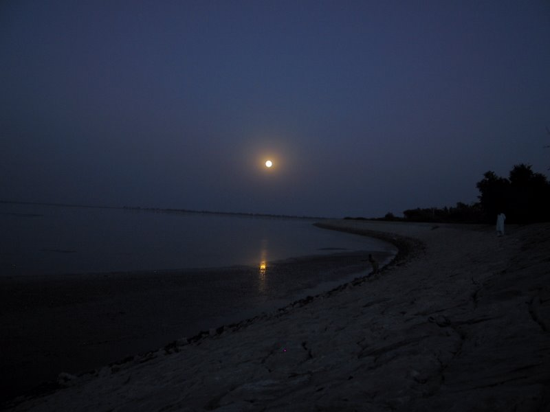 Beautiful Night view of River Sindh in Kundian